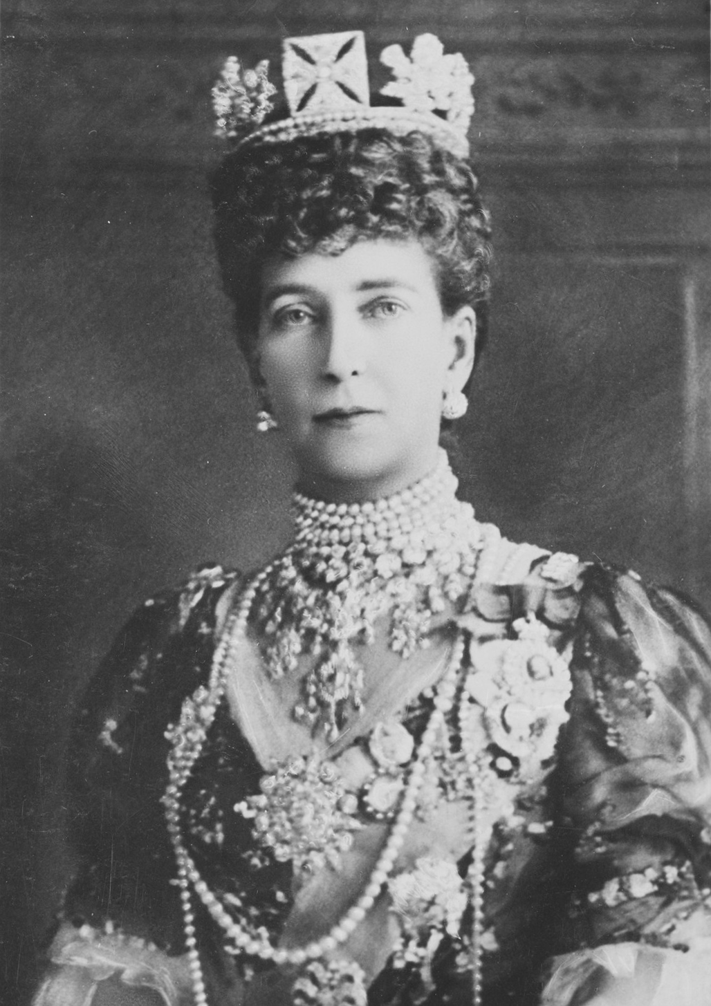 Bust-length formal portrait photograph of Queen Alexandra wearing King George IV's Diamond Circlet, Royal Family Orders, crown and other pieces of jewellery